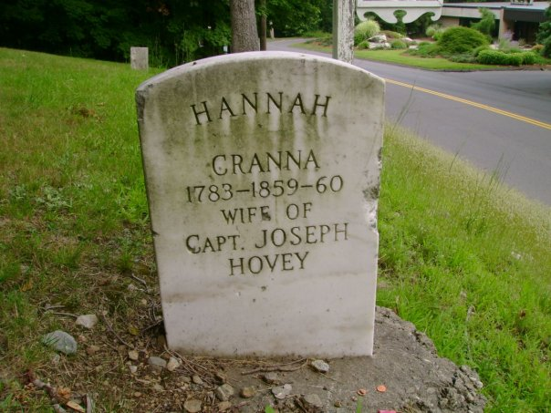 The gravesite of Hannah Cranna, the Wicked Witch of Monroe, at Gregory's Four Corner's Burial Ground, Trumbull, CT